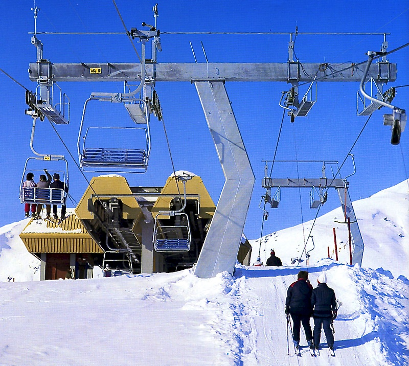 chair- and skilift Tschuggen Ost in Arosa/Swiss